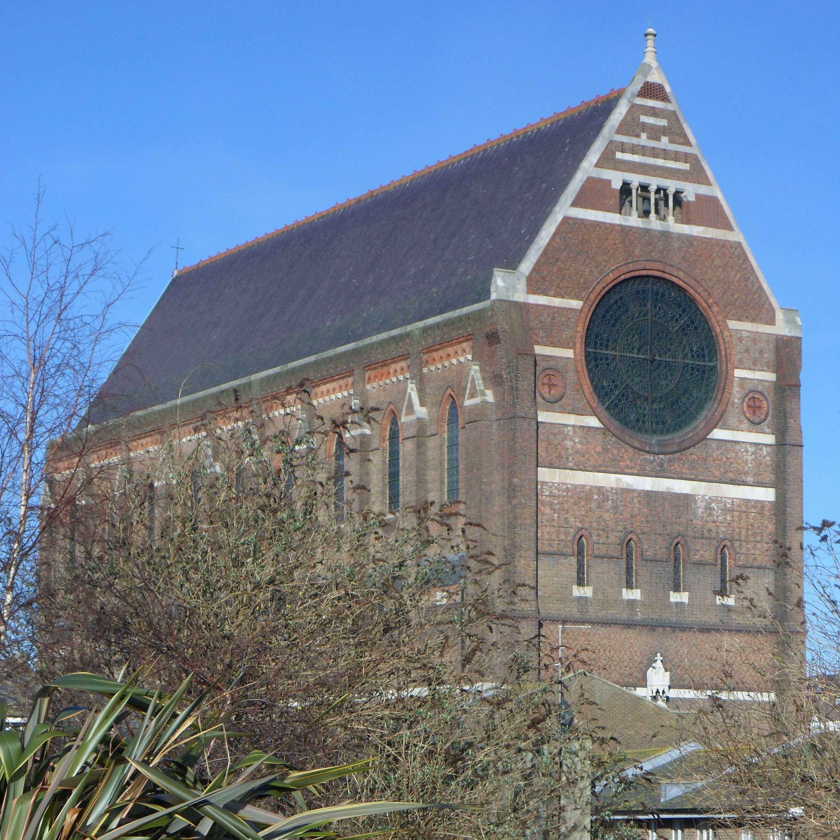 St Bartholomew's Church, Ann Street, New England Quarter, City of Brighton and Hove, England. Listed at Grade I by Historic England. This view looks northeastwards from Belmont Street.